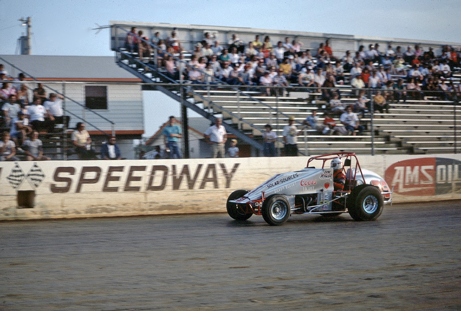 The 1986 USAC Silver Crown car of Rich Vogler at Hagerstown Speedway in Maryland.